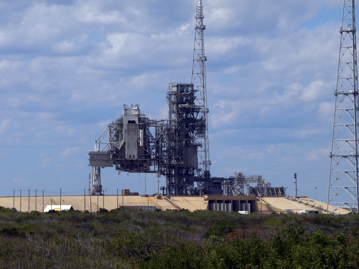 Launch Gantry